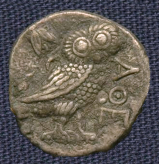 Bactrian imitation of an Athenian drachme